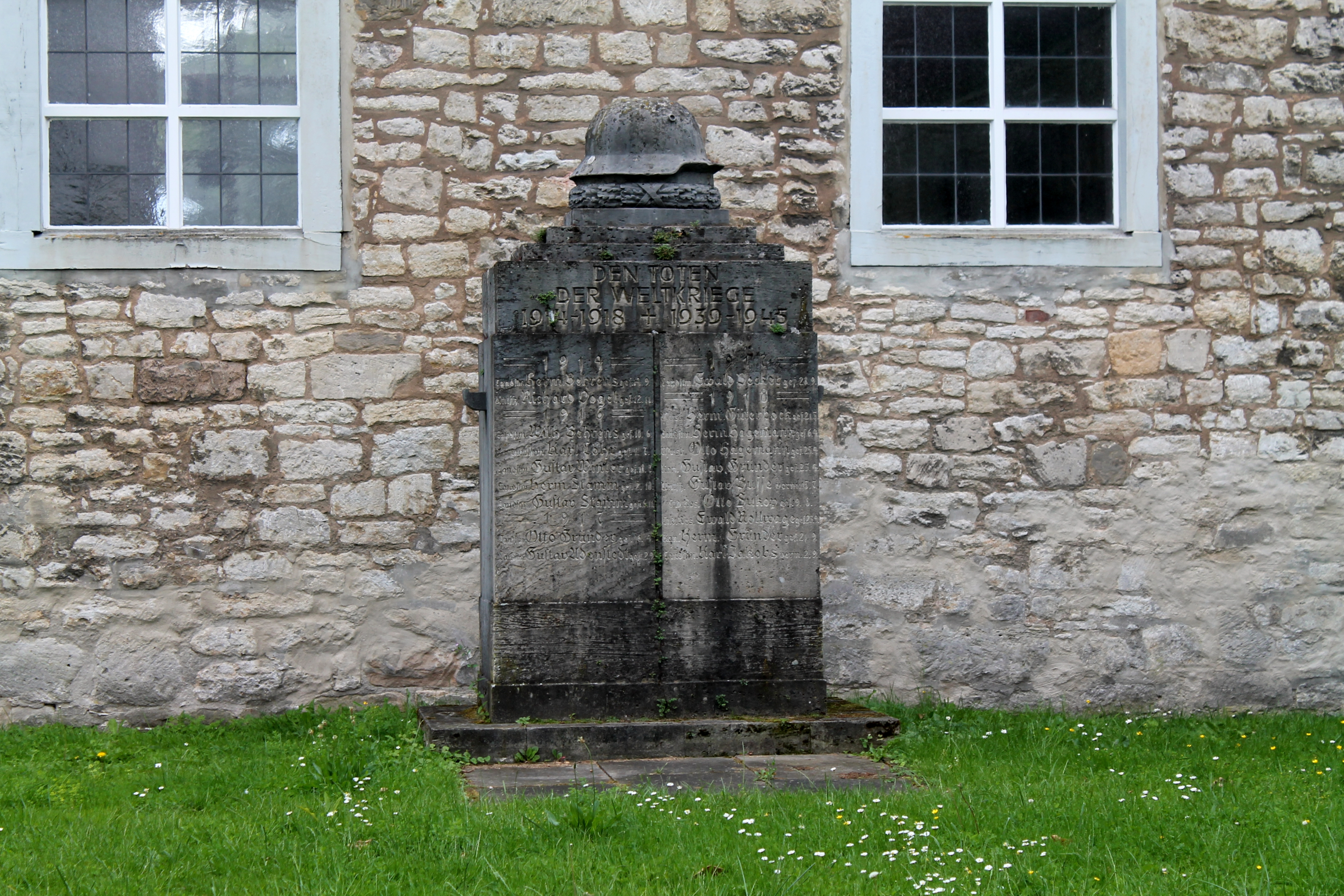 War memorial in Salzgitter-Bruchmachtersen, Lower Saxony, Germany.